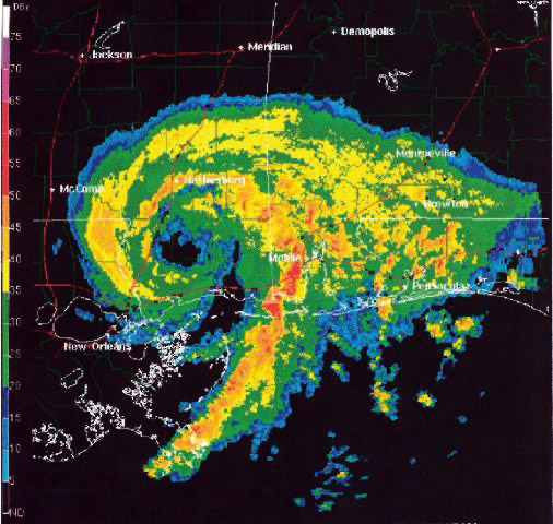 Radar image of Subtropical Storm Allison in June of 2001 with an eye feature